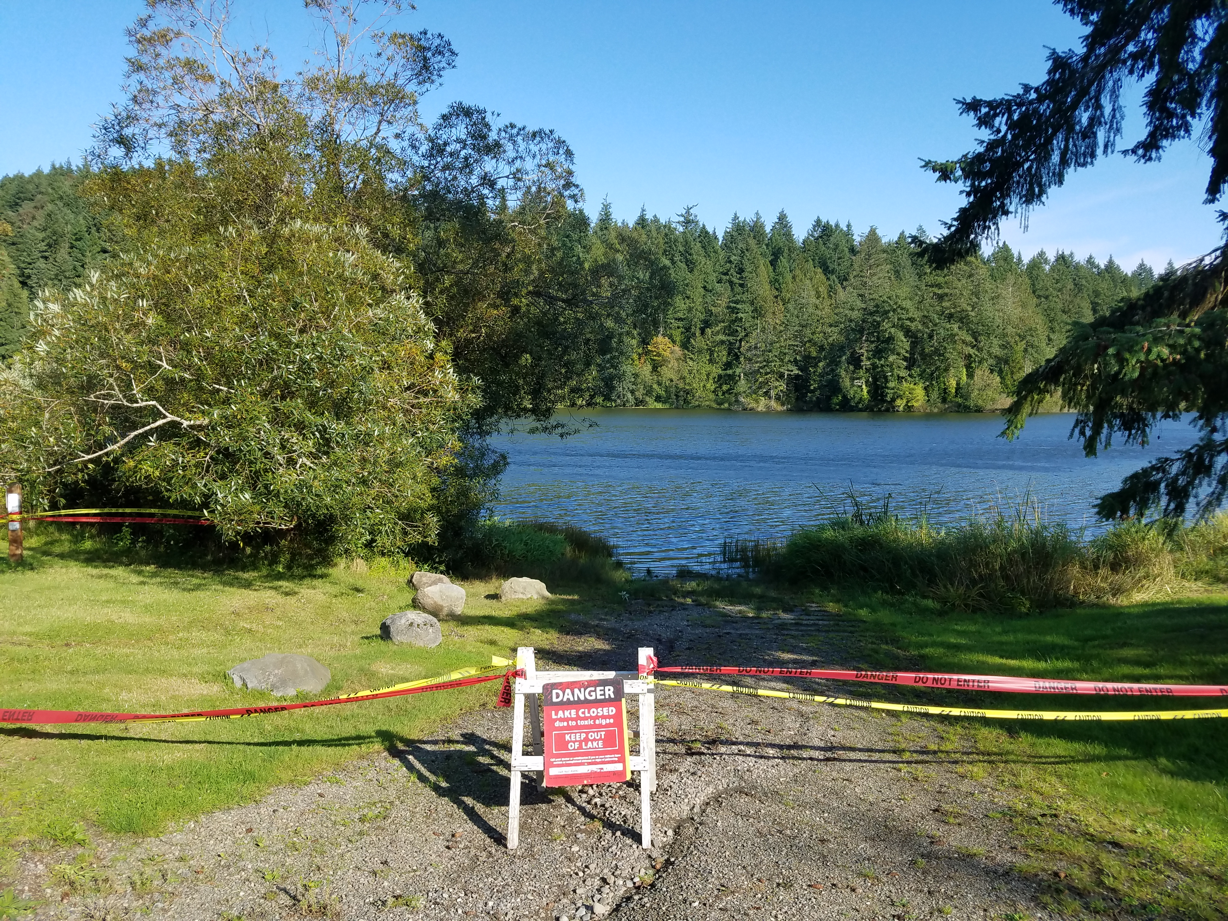 Anderson Lake at its eponymous state park, cordoned off in late September 2019 due to a toxic algal bloom.